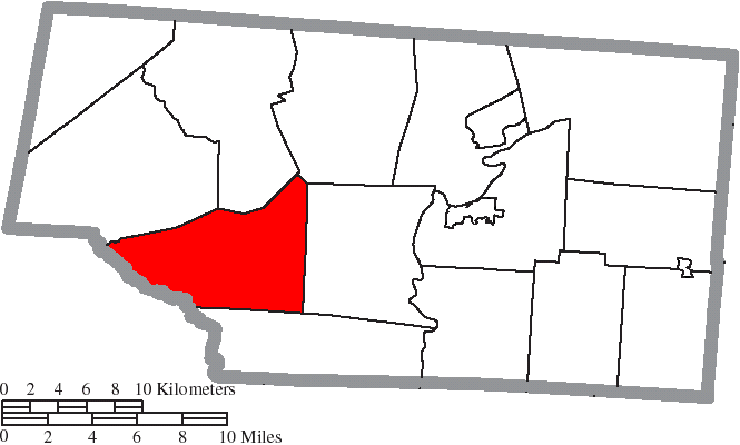 Map of the municipal and township boundaries of Pike County, Ohio, United States, as of the 2000 census, with the location of Sunfish Township highlighted. Township borders are shown only in unincorporated areas in order to differentiate incorporated and unincorporated areas more clearly.